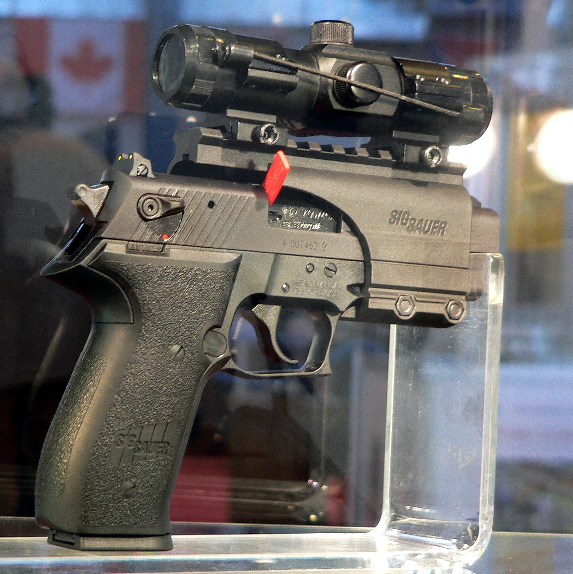 SIG-Sauer Mosquito (cal. .22 Long Rifle)